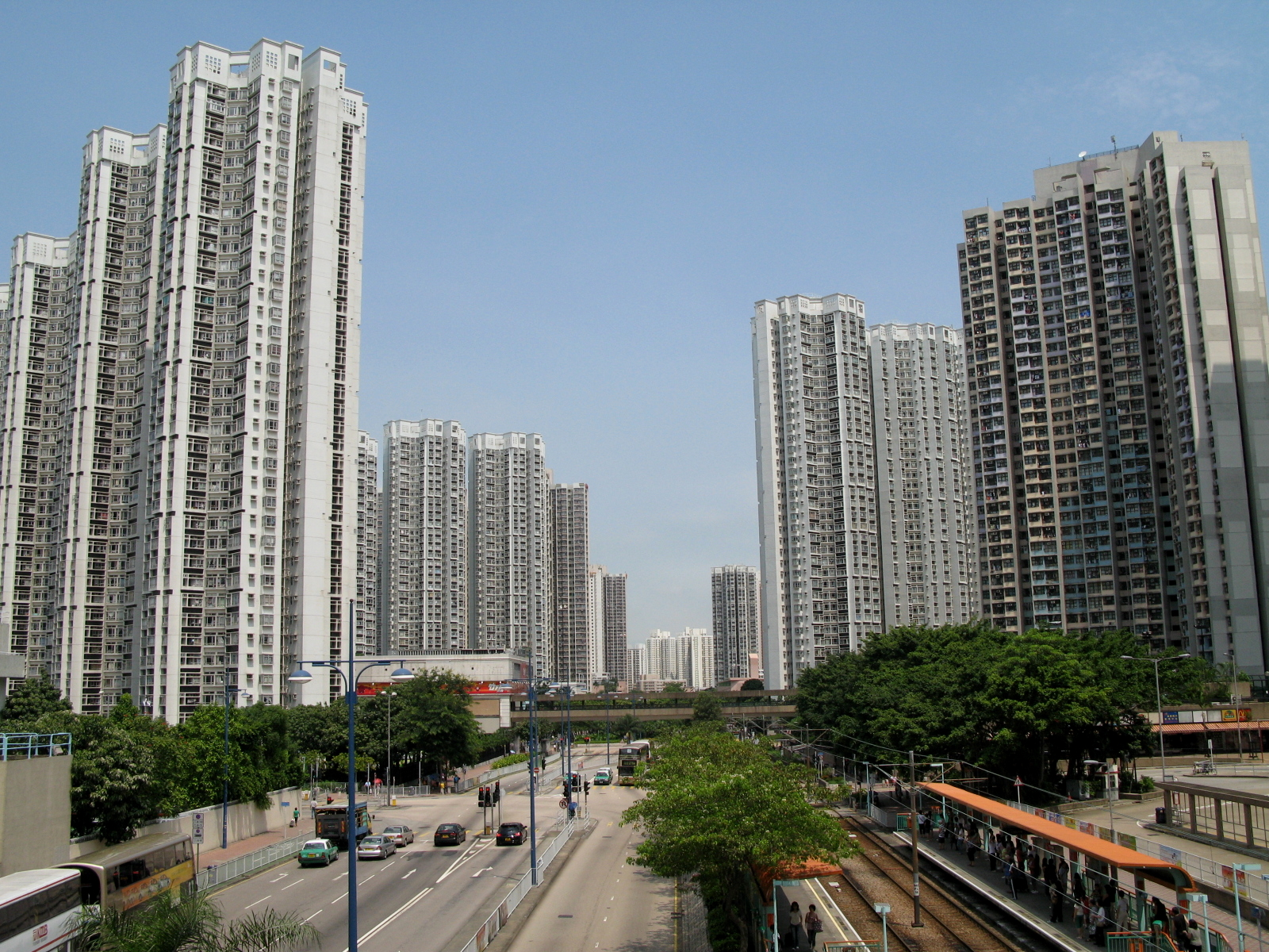 HK Tin Shui Wai South